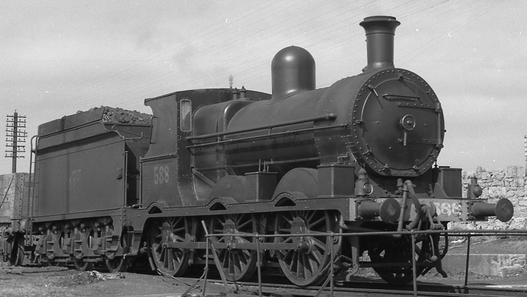 Class Lm 588 was designed by Martin Atock for the Midland Great Western Railway of Ireland in 1895. While some class members were built at Broadstone works this example was built by Sharp Stewart and was originally MGWR 134 'Vulcan'. This locomotive was withdrawn in 1963 and is seen here approaching the turntable at Athlone.